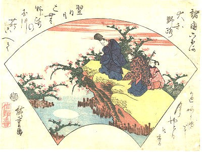 Hiroshige, the poet Ariwara no Narihira, chūban, c. 1830